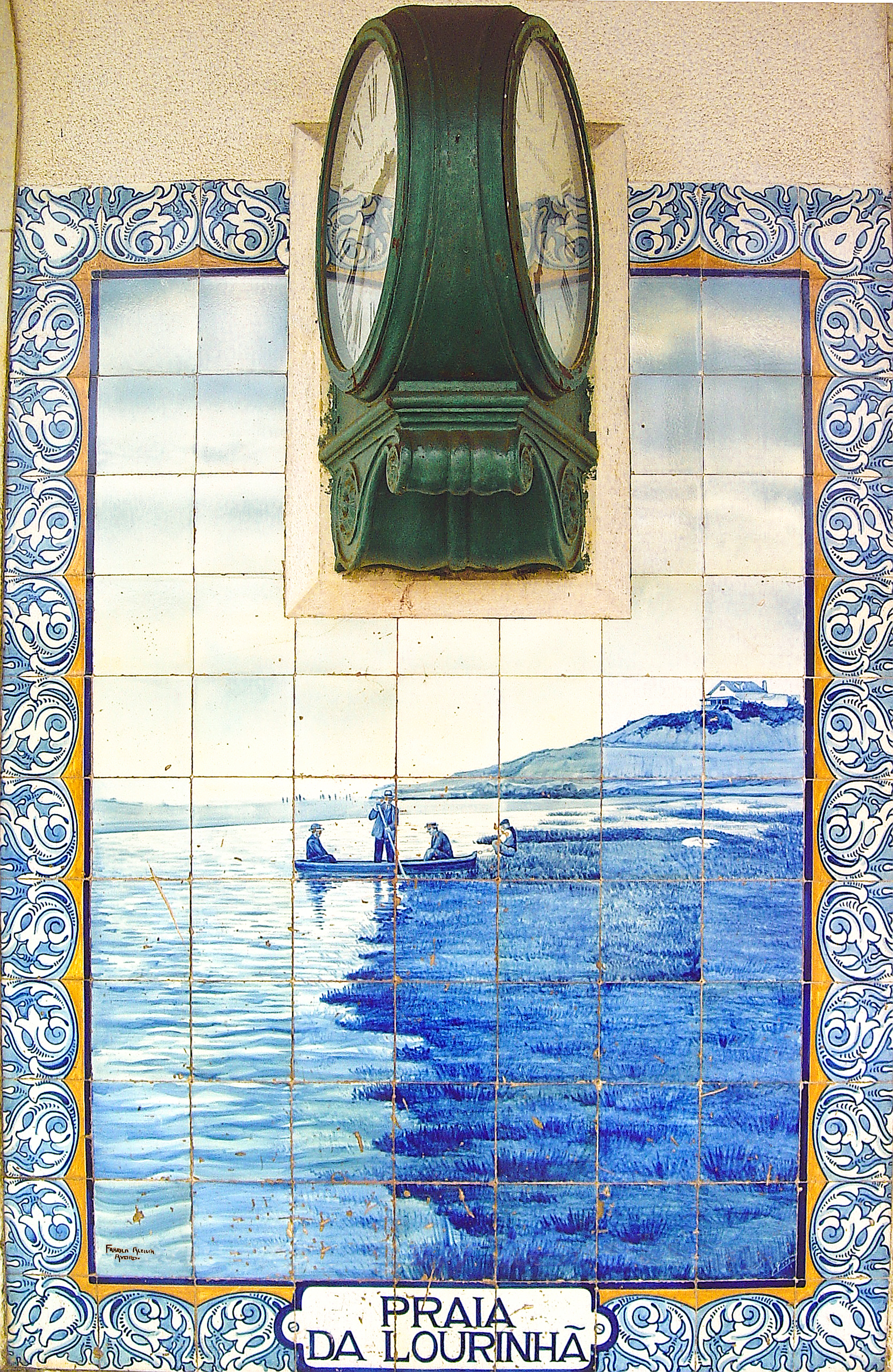 See where this picture was taken. [?]